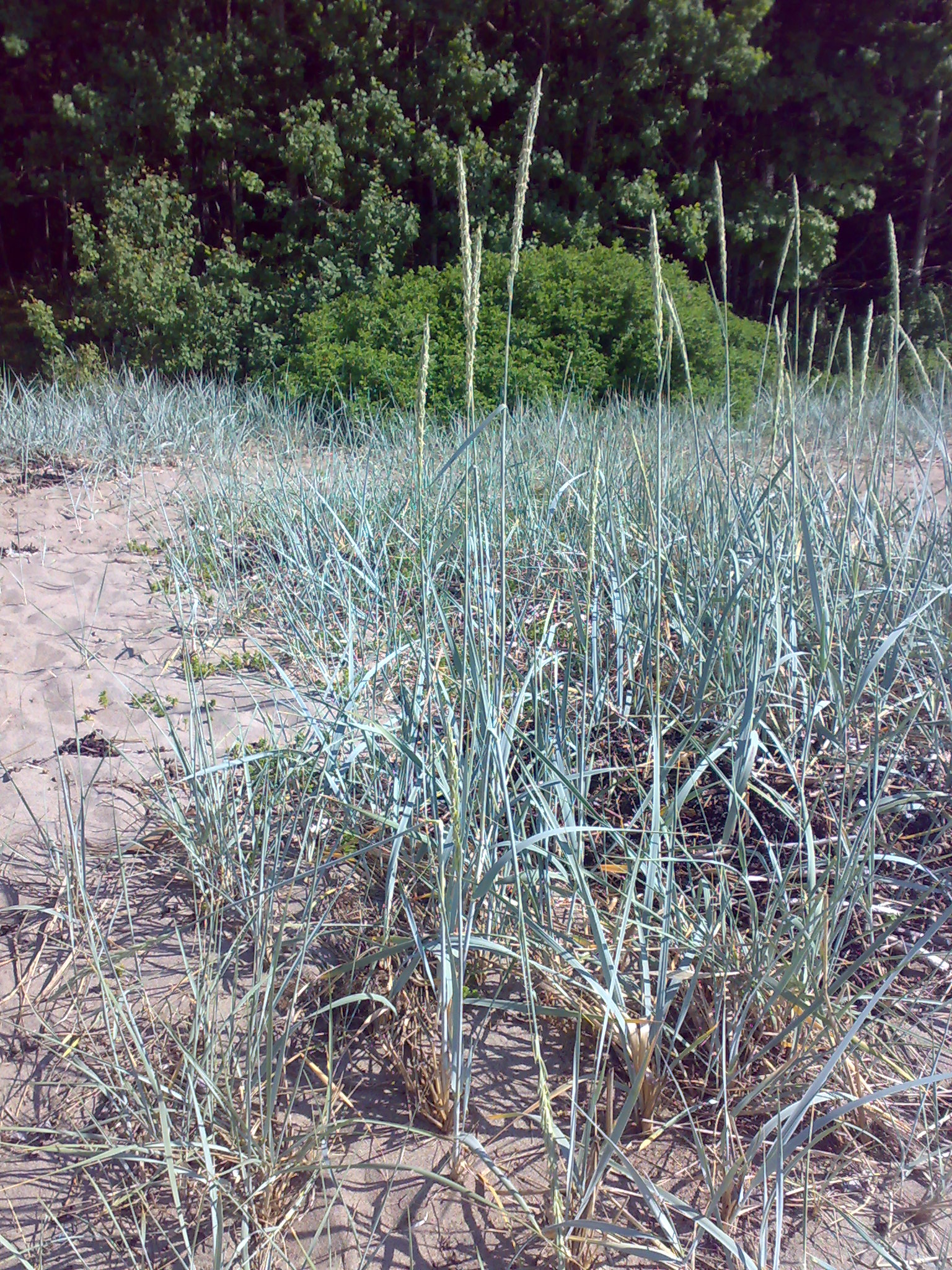 Elymus arenarius in Hurum, Norway